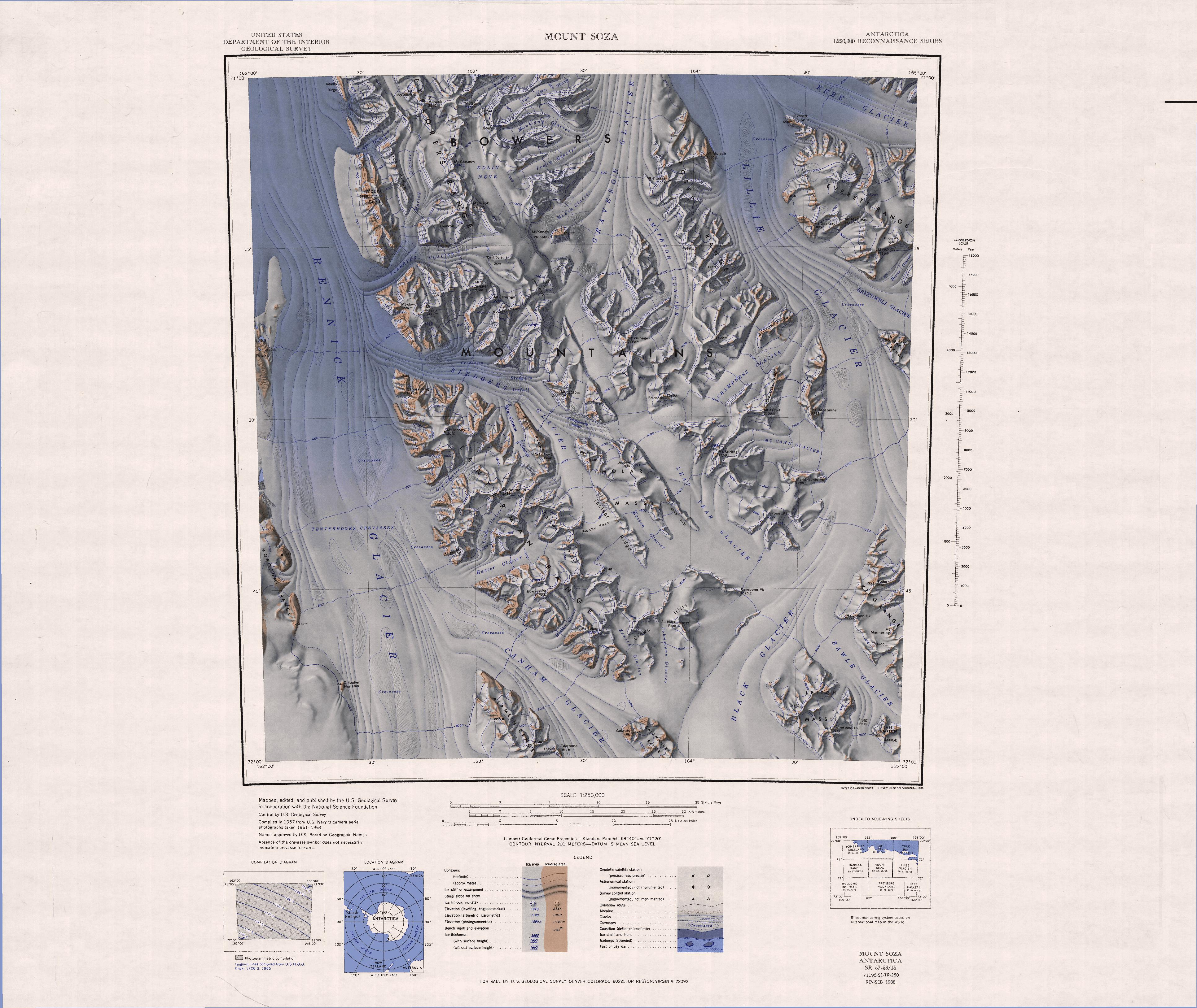 1:250,000-scale topographic reconnaissance map of the Bowers Mountains area from 162°-165°E to 71°-72°S in Antarctica, including Mount Soza and Rennick and Lillie Glaciers. Mapped, edited and published by the U.S. Geological Survey in cooperation with the National Science Foundation.